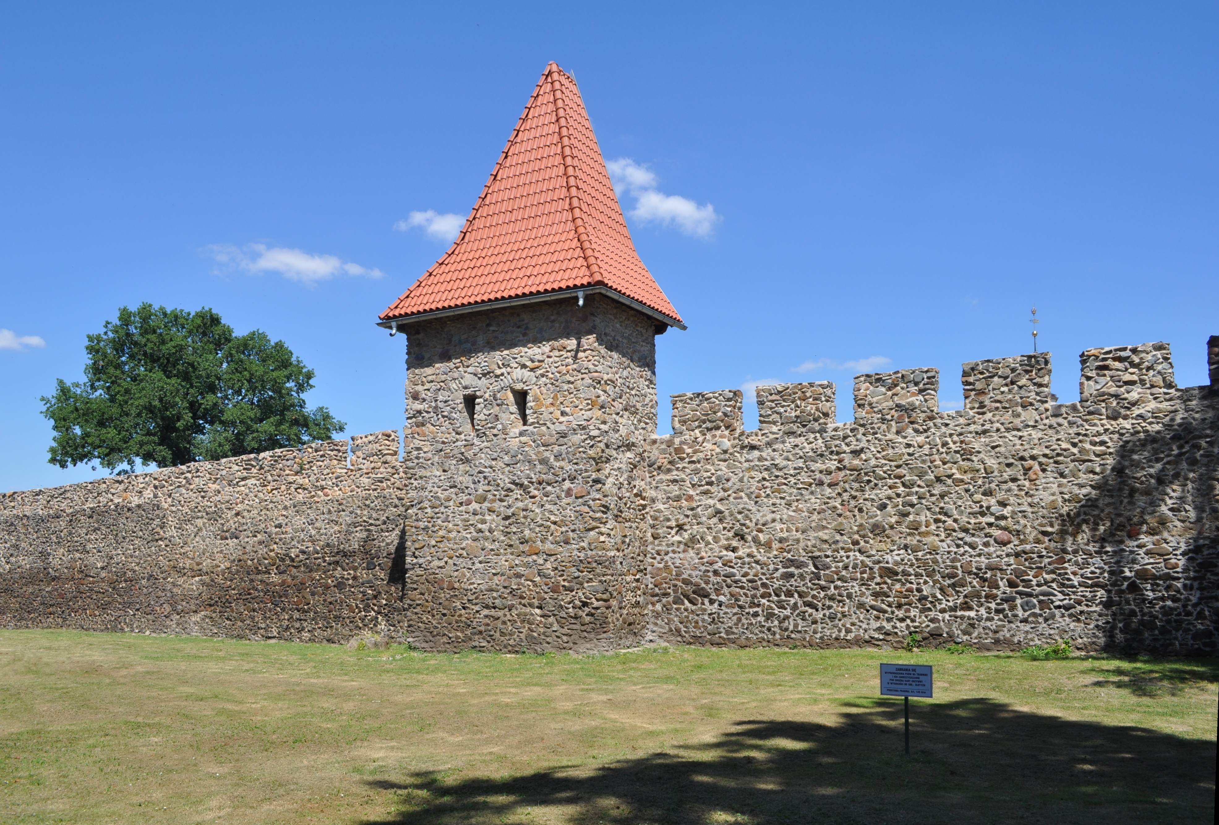 Świebodzice - city walls